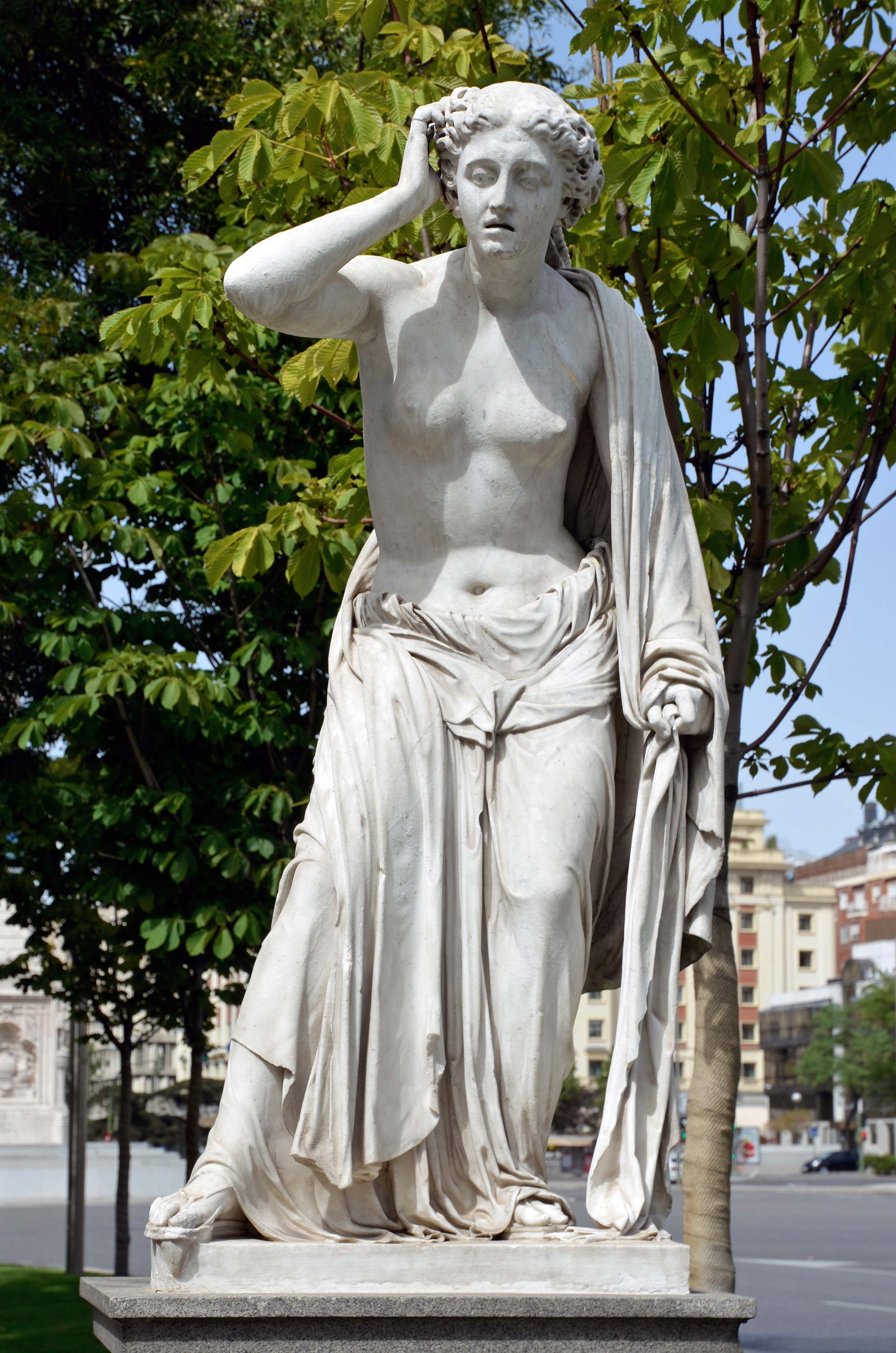 Statue depicting Andromache by José Vilches (1853) - Paseo de Recoletos, Madrid, Spain.